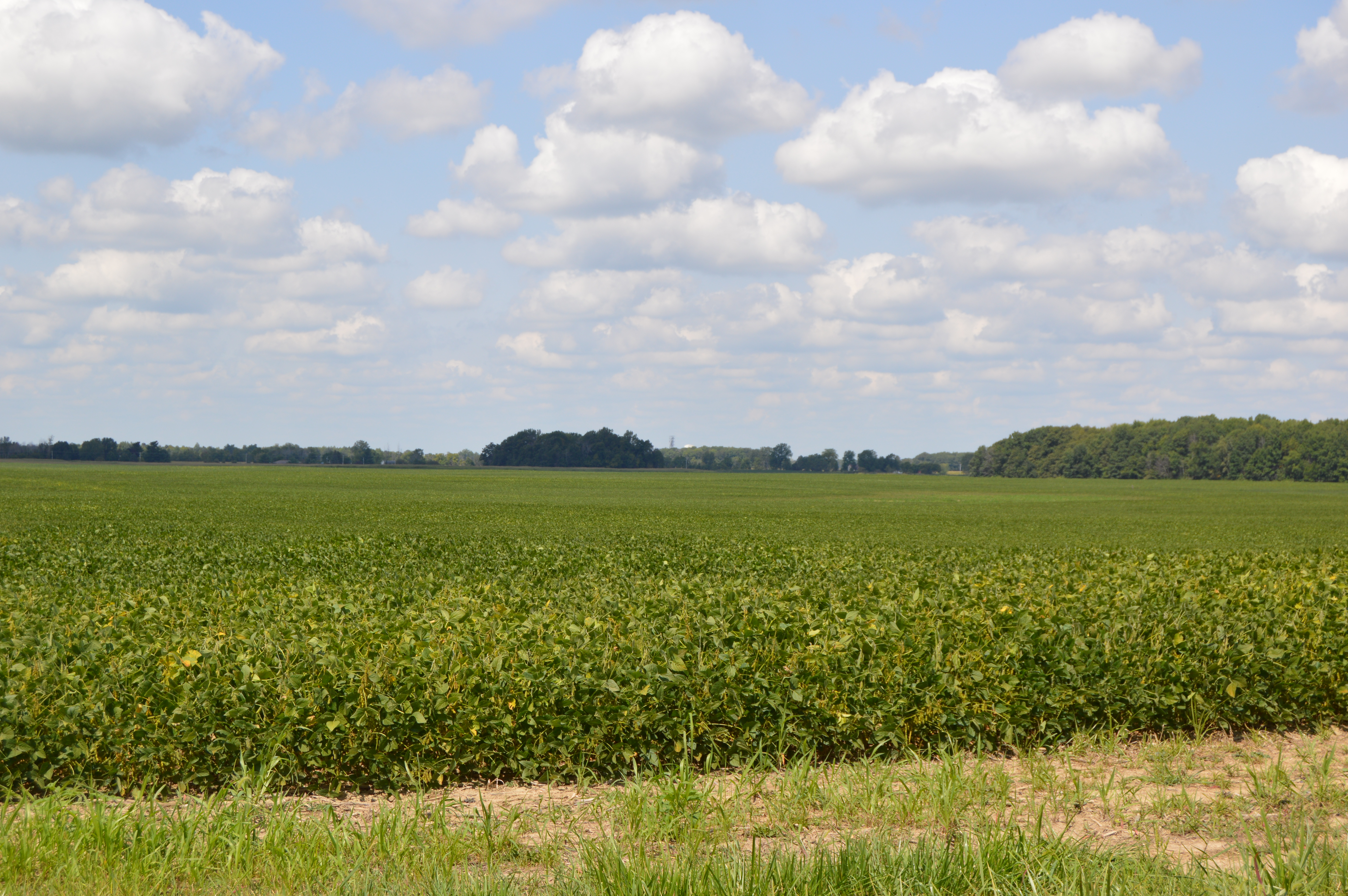 Looking northwest from the junction of DeCliff Road and Wildcat Pike northwest of New Bloomington in Montgomery Township, Marion County, Ohio, United States.